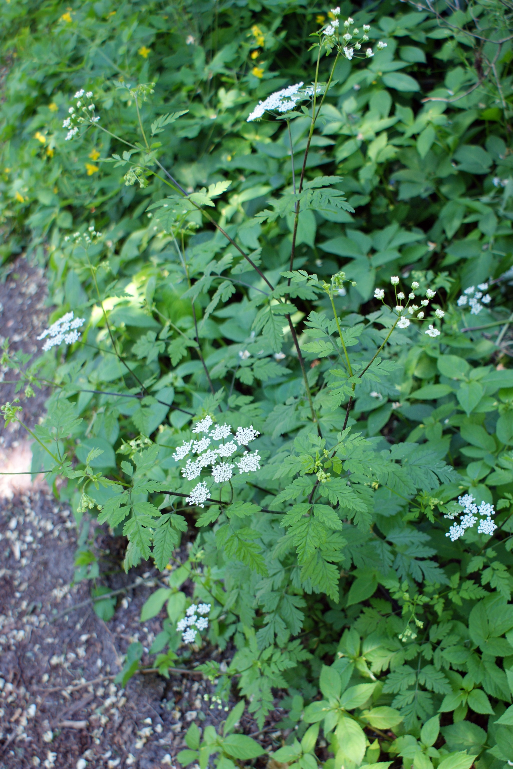 Chaerophyllum temulum